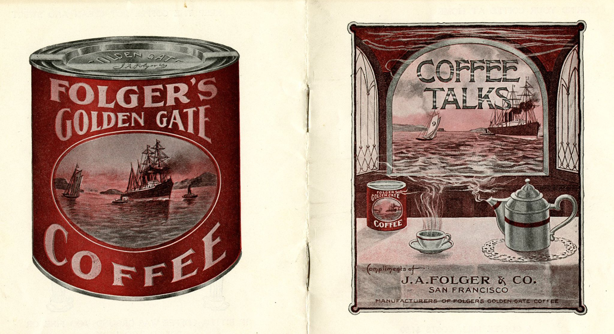 Advertisement for Folger's coffee (undated, but pre-Golden Gate bridge)